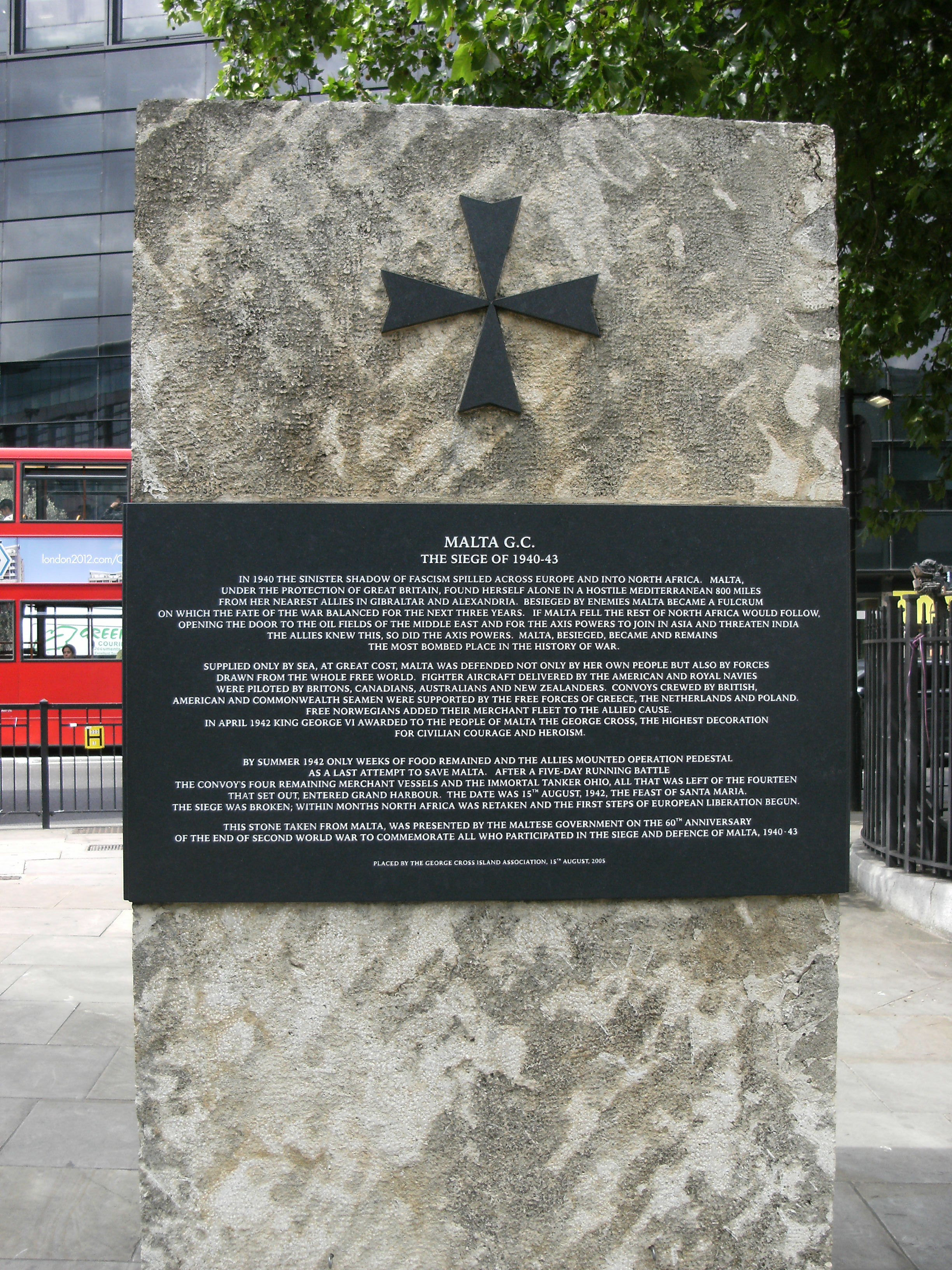 Malta George Cross Monument, Tower Place, London EC3.